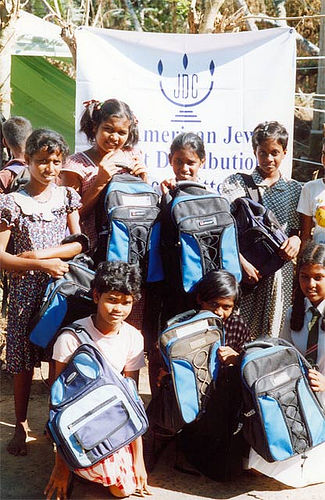 2000 children in the worst impacted villages of the Galle district have received school kits under the sponsorship of the American Jewish Joint Distribution Committee, Inc (JDC). The kits consist of a school bag, uniform material, shoes, socks, exercise books, stationary and a personal hygiene pack. This offer has been made possible through a generous donation of US $50,000.